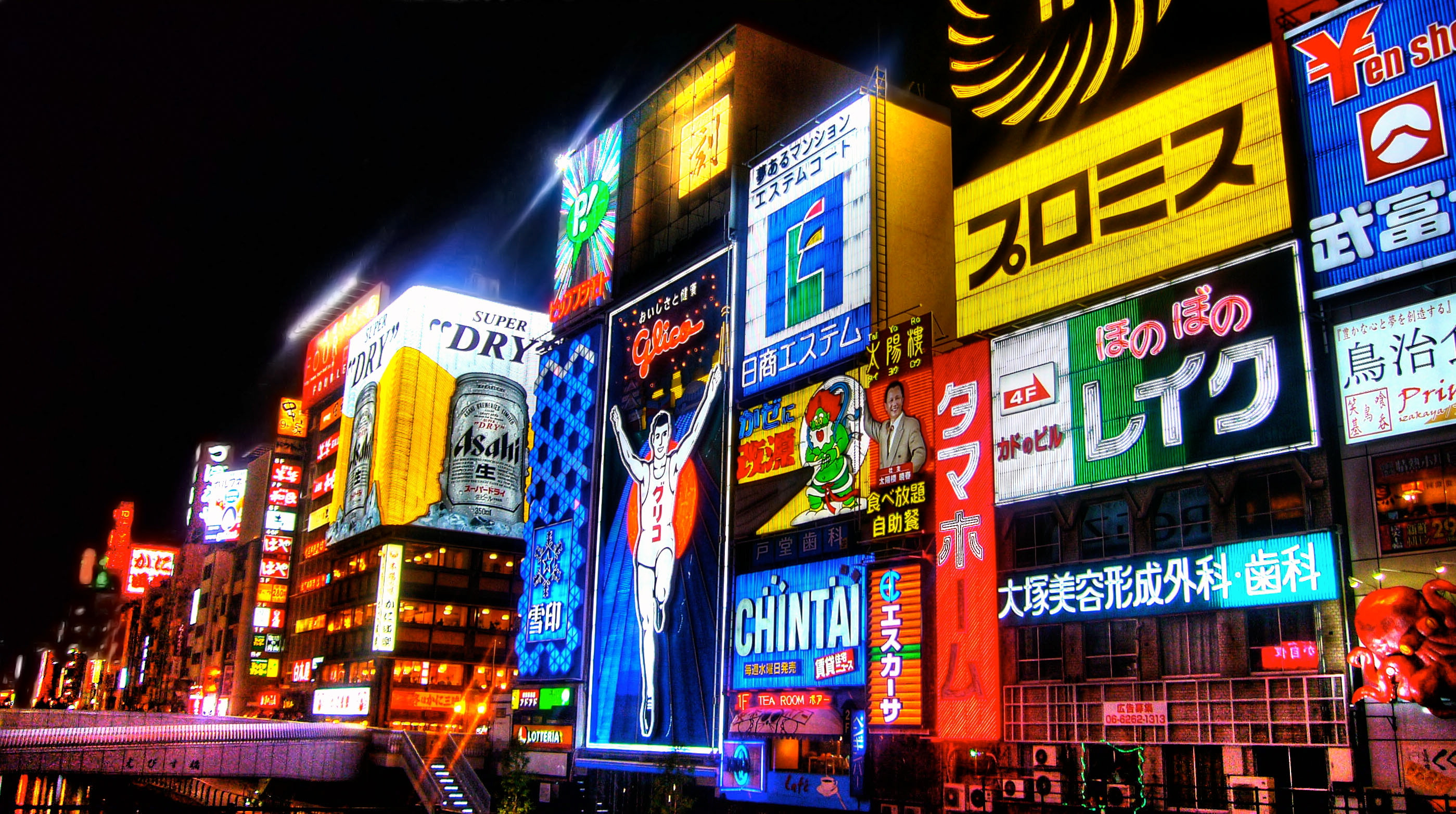 Osaka Japan, Neon signs are luminous-tube signs that contain neon or other inert gases at a low pressure. Applying a high voltage (usually a few thousand volts) makes the gas glow brightly. The running man in the middle has been a famous landmark of Osaka since its initial construction in 1919. It bears the Glico running man on a blue race track as well as some of Osaka's other famous landmarks in the background.